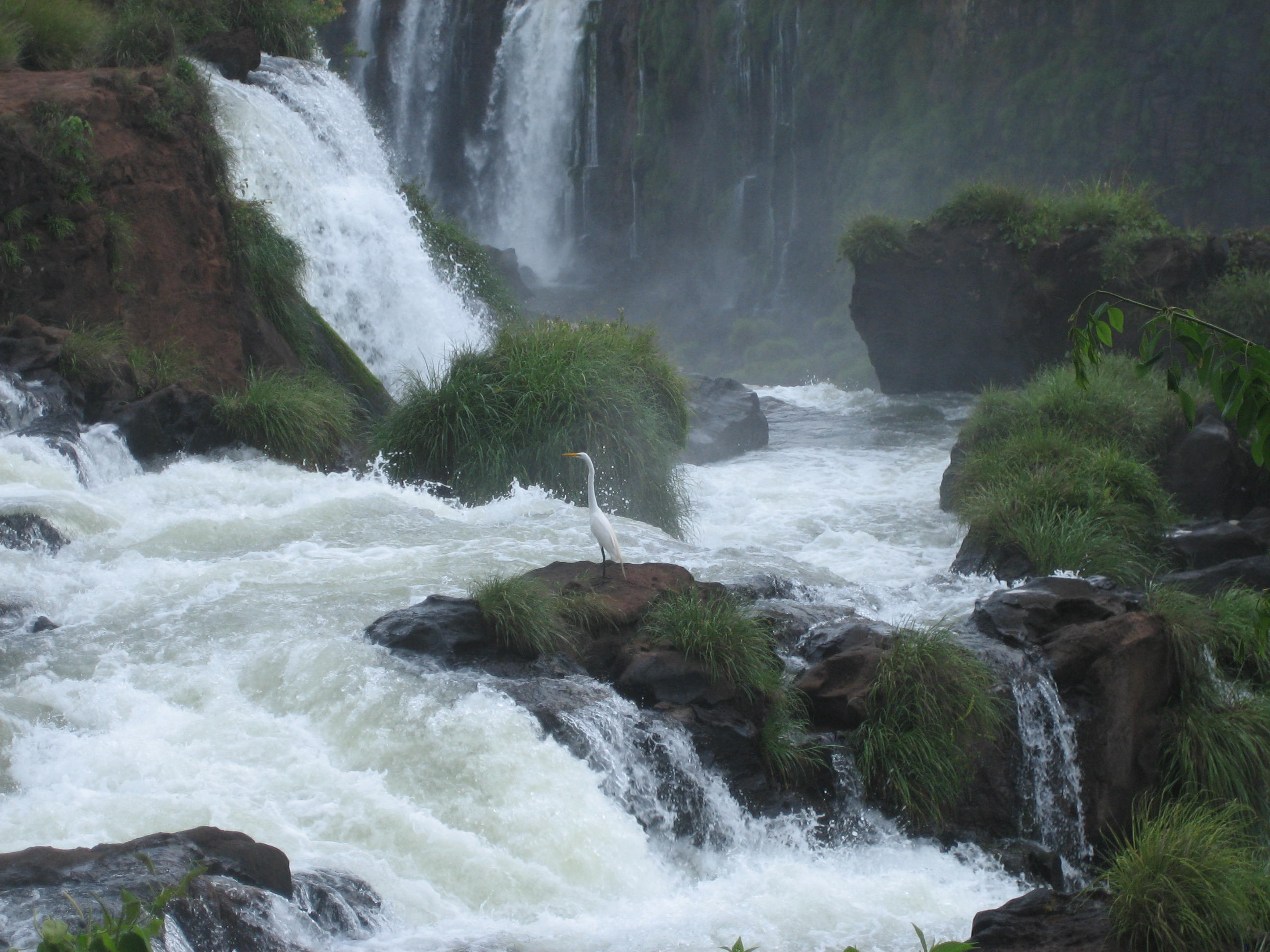 Ardea alba in Iguazú falls